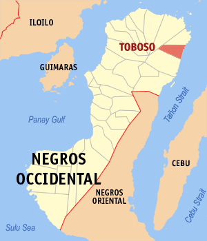 Map of Negros Occidental showing the location of Toboso